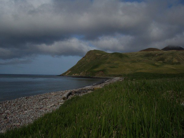 This is a picture of North Bight Beach on the north coast of Buldir. You can see main talus in the background, which is home to many seabirds.